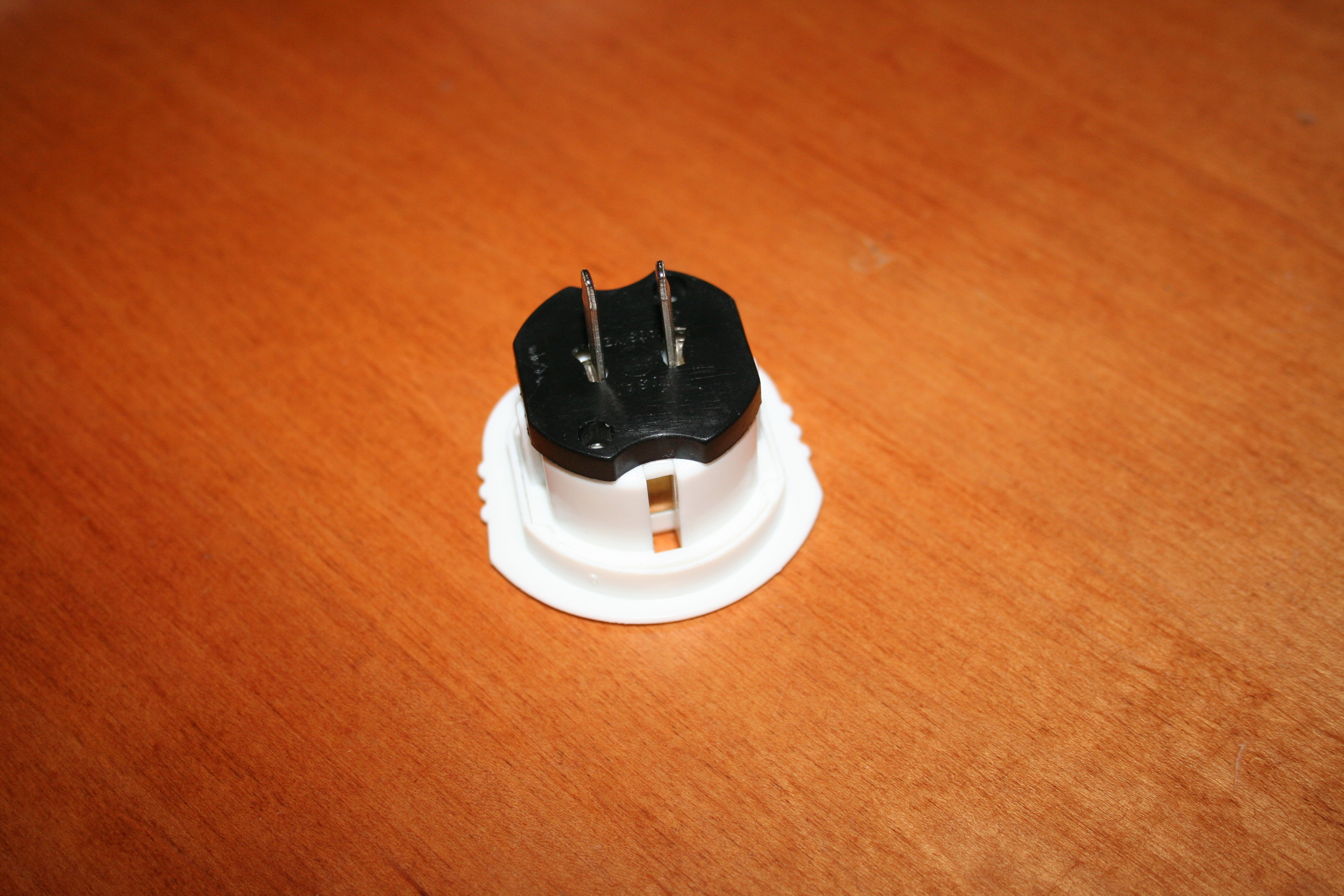 Adaptor